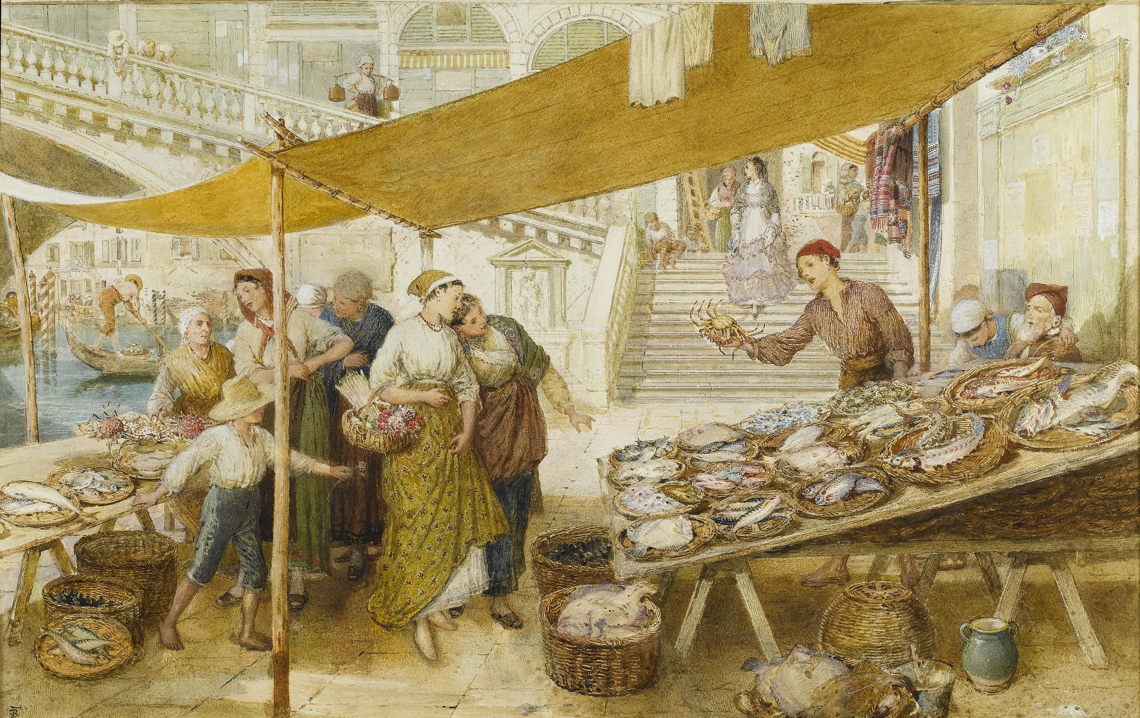 The fish market on the steps of the Rialto Bridge, Venice. Signed with monogram, watercolour heightened with bodycolour, 43 x 67 cm. Exhibited in 1875